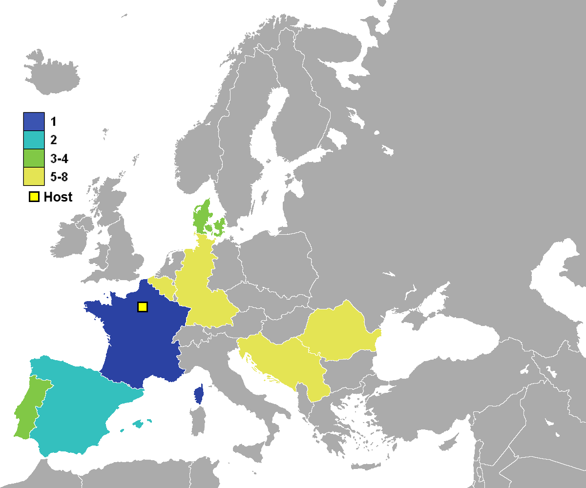 UEFA European Football Championship 1984 final team ranking, showing: Winner (dark blue) Runner-up (light blue) Semifinalists (light green) Group stage (yellow) Yellow square is host nation (France).